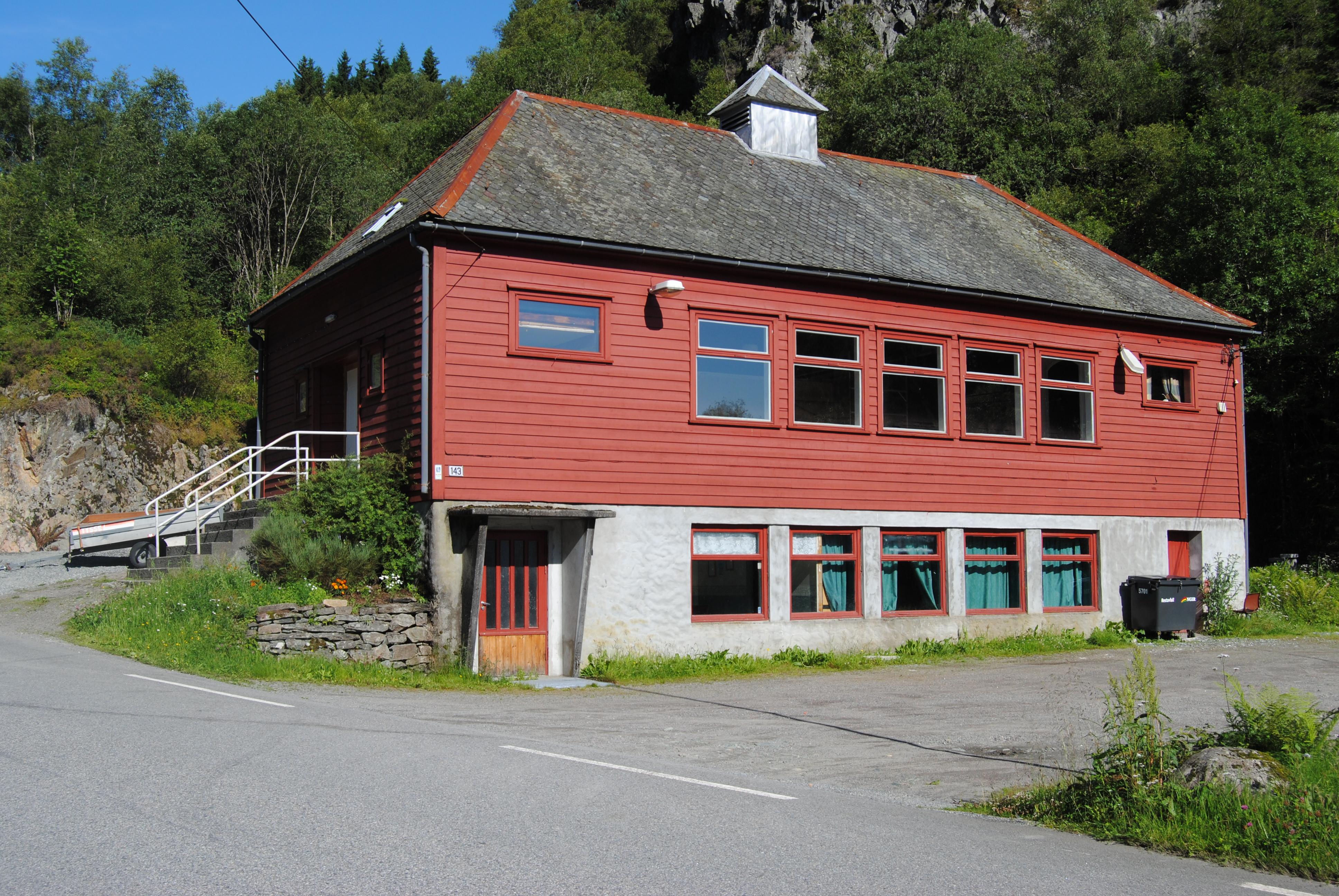 Community house for local gatherings in Grasdal, Meland, Norway